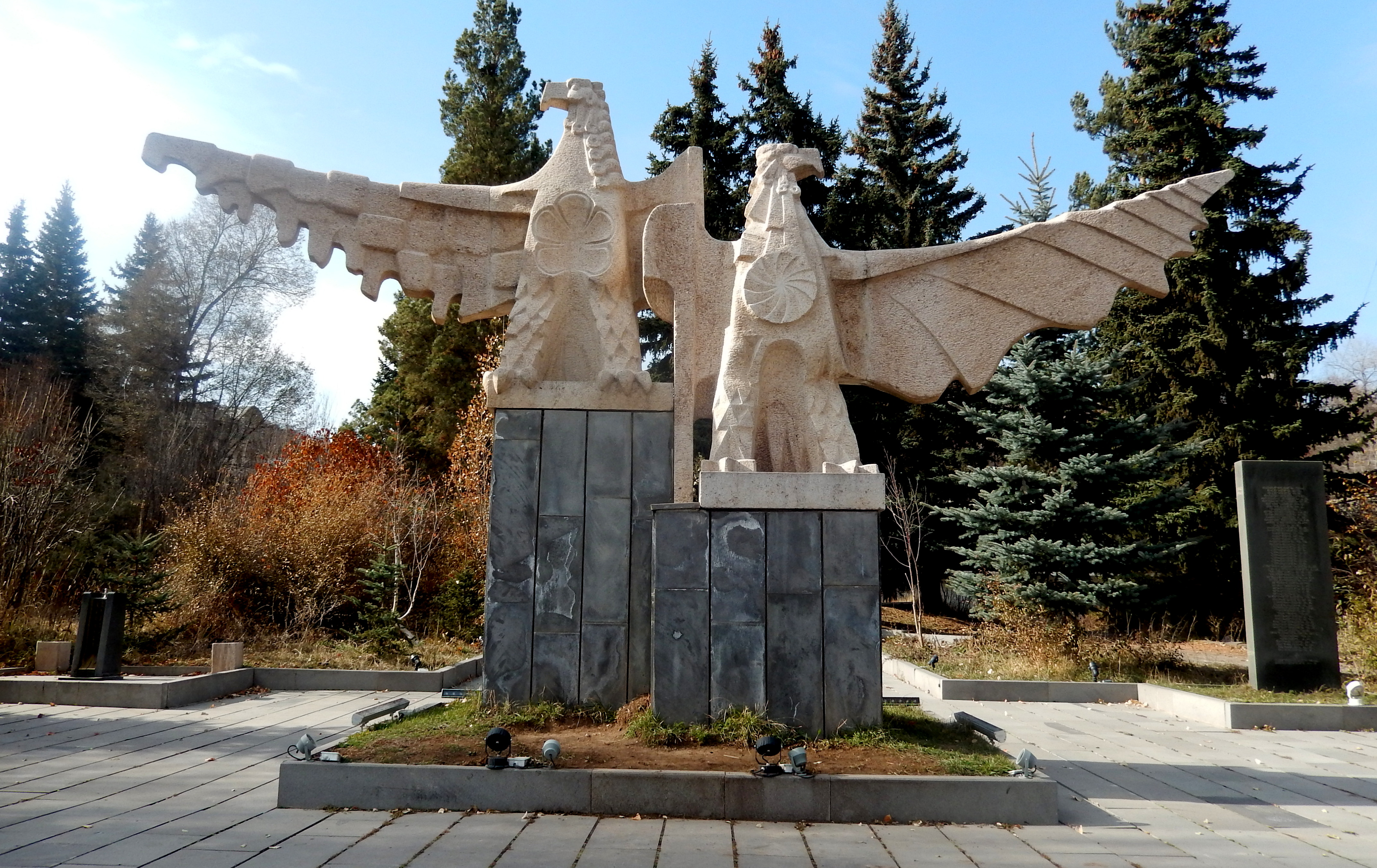 Hawk sculpture in Tsakhkadzor